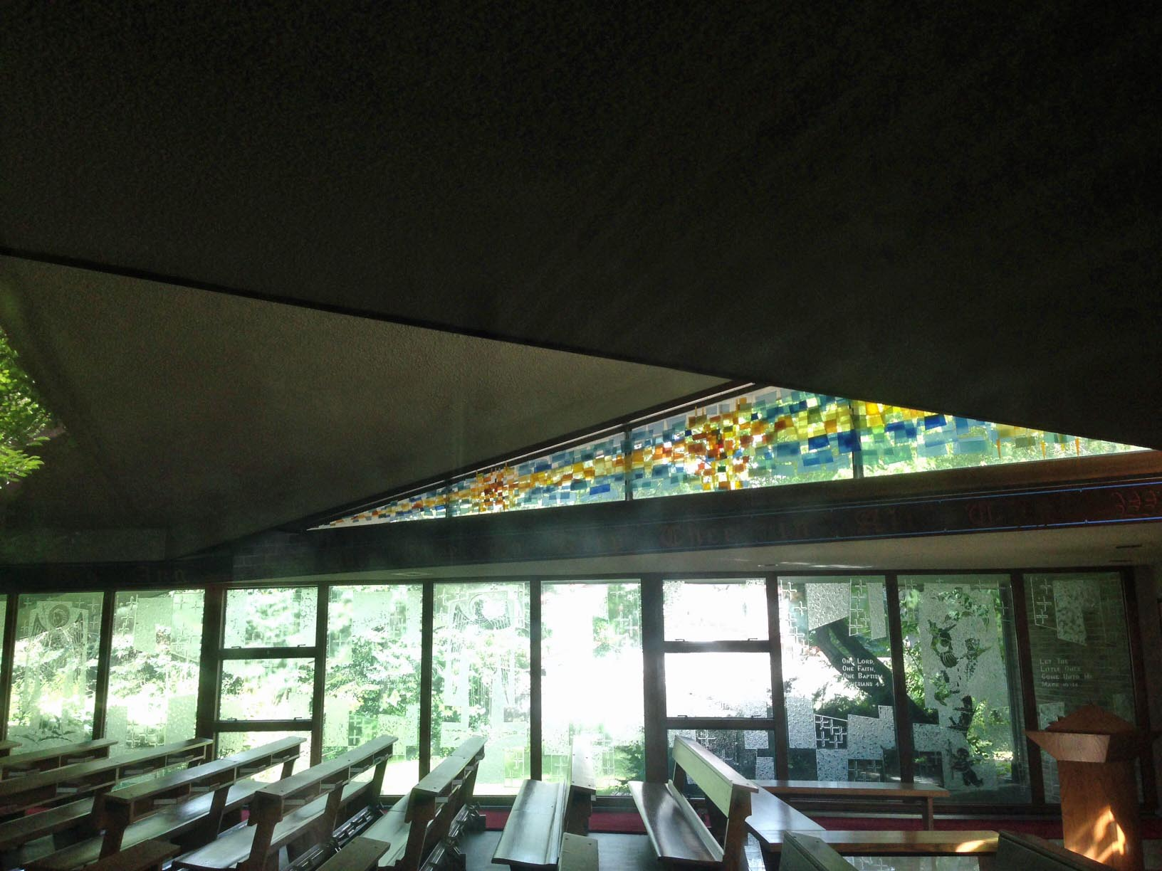 St. Edmunds Church on Watertown Plant Road in Elm Grove, Wisconsin was designed by the renowned Milwaukee architect William Wenzler and was completed in 1957. It is one of the best local examples of MidCentury Modern Architecture. The large, clear windows were designed to display the gardens outside as a work of God, but were later replaced in the with etched windows featuring Bible proverbs and images.